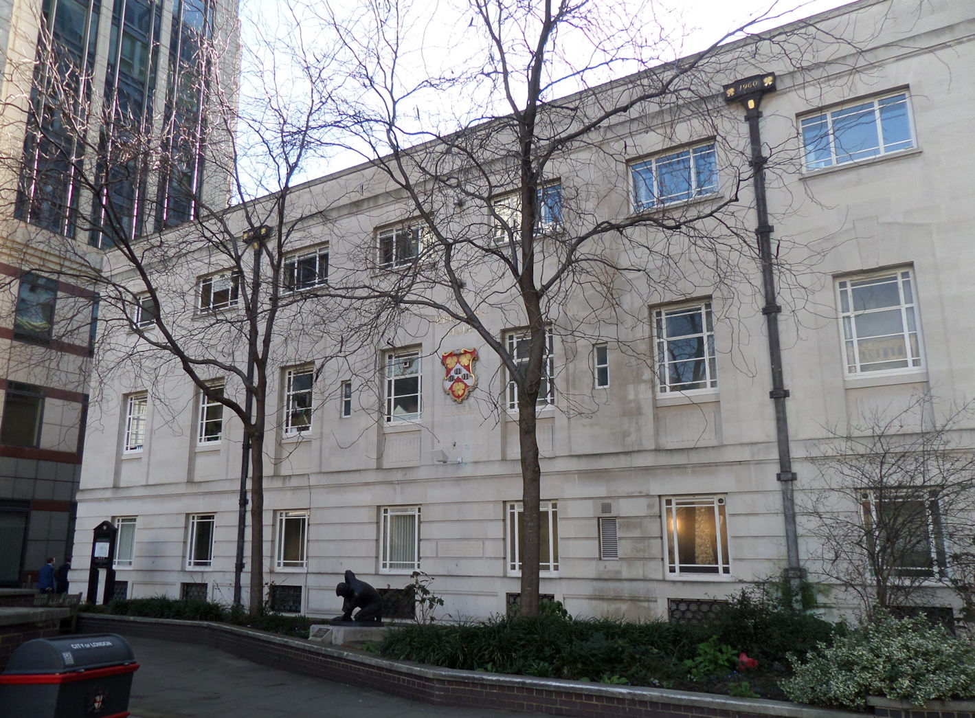 Brewers' Hall in the City of London